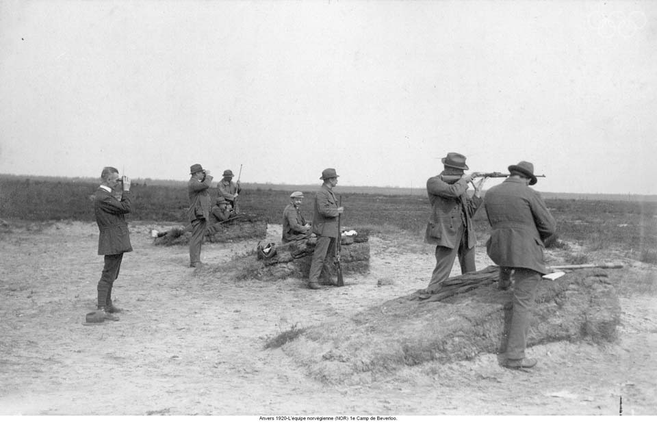 Antwerp 1920-The Norvegian team (NOR) 1st, Beverloo Camp.